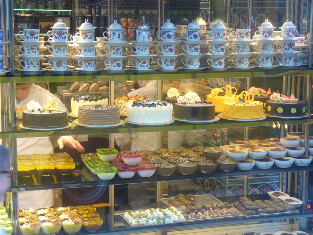 Cake displayed in shop in Istanbul city